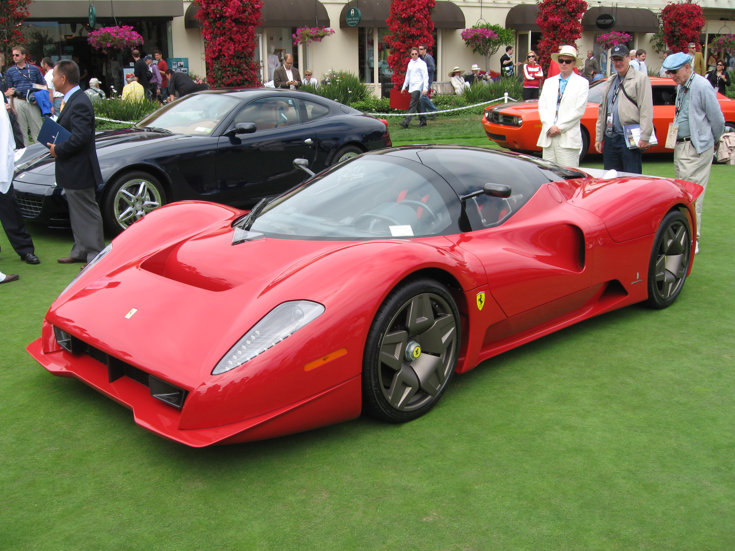 The Ferrari P4/5 at the Pebble Beach Concours d'Elegance motor show in 2006.